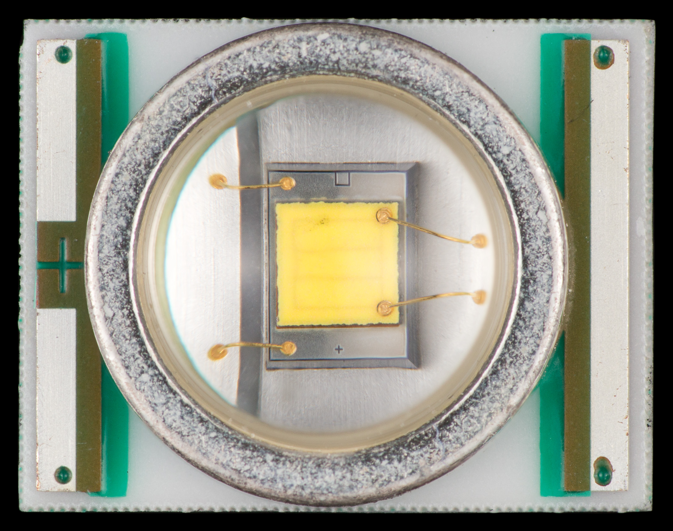 Cree XLamp XR-E high power LED